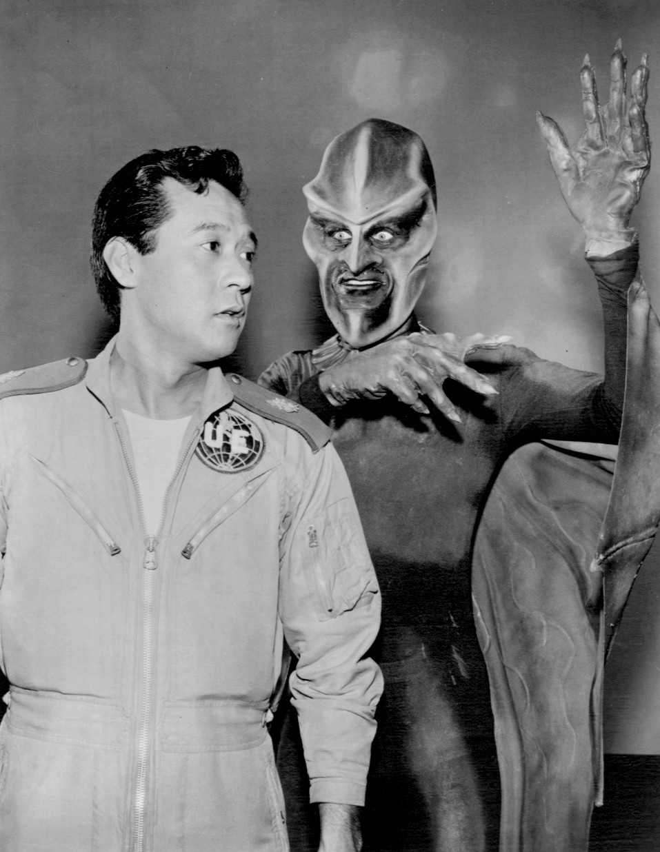 Photo from the episode Nightmare of the television series The Outer Limits starring James Shigeta as Maj. Jong.